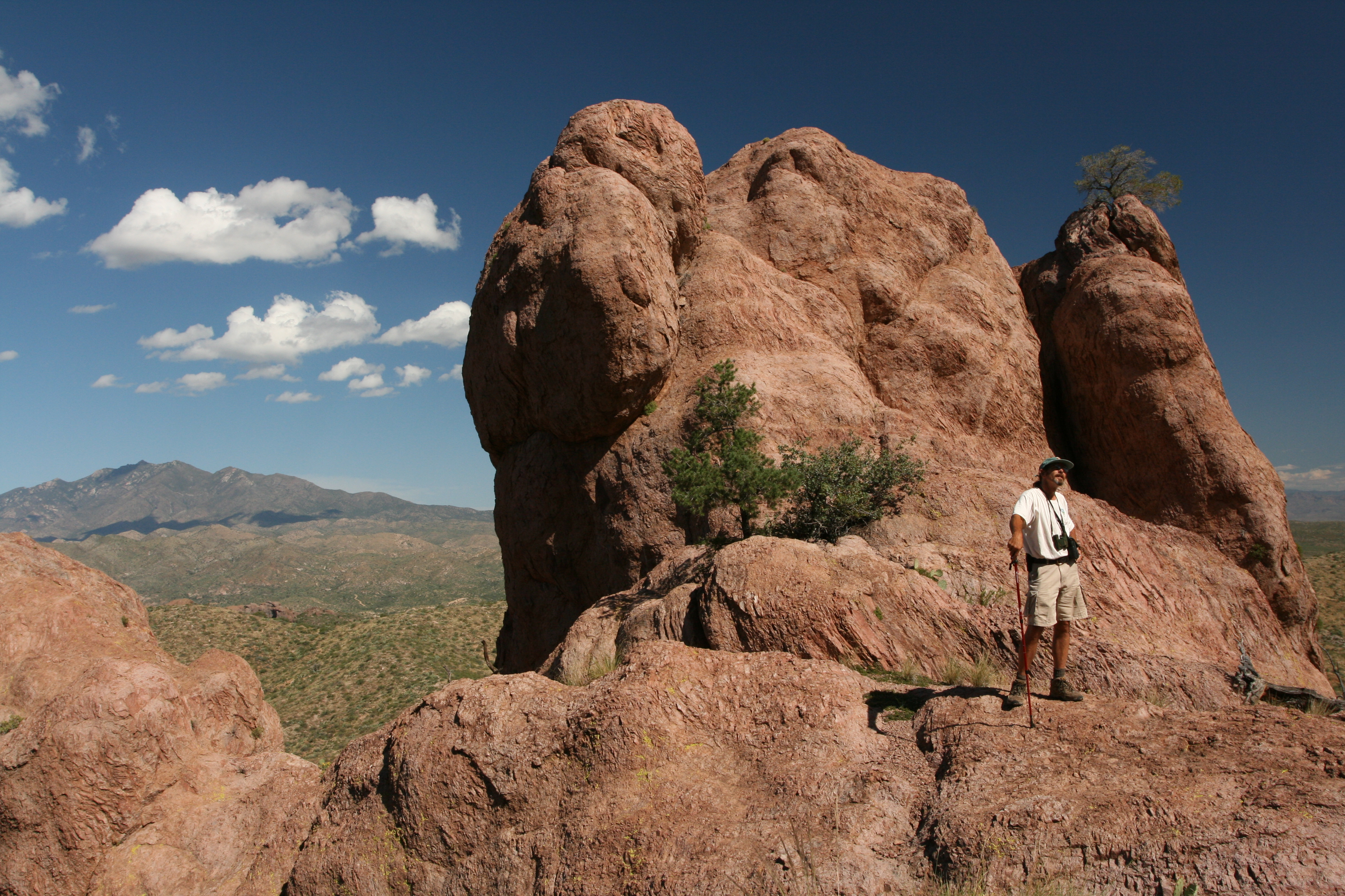 The 5,800-acre North Santa Teresa Wilderness is located about 25 miles west of Safford, Arizona in Graham County. The geologic landmark known as the Black Rock rises nearly 1,000 feet from its base while the remainder of this mile-long rhyolitic plug is encircled by cliffs of several hundred feet. To this day, the rock holds spiritual significance for local Native Americans as well as a mystique for visitors. Jackson Mountain rises to 5,890 feet southeast of the rock and is dissected by several canyons. The majority of this sister to the boulder-strewn Forest Service Santa Teresa Wilderness consists of desert and mountain shrub, grassland and riparian vegetation." For